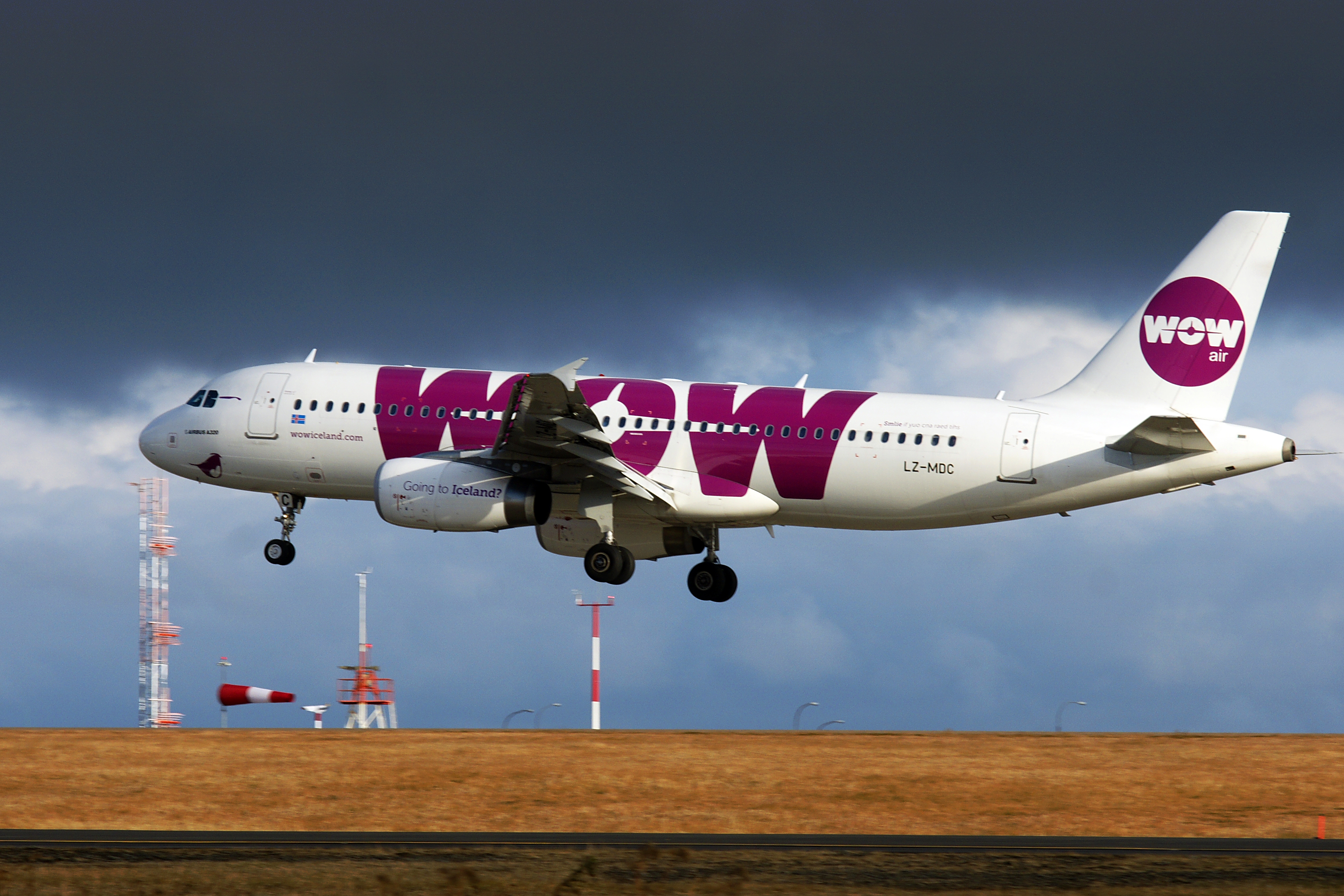 WOW Air Airbus A320 landing at Keflavik International Airport